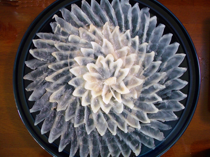 Fugu sashimi : Tessa is sashimi of thin sliced puffer fish.